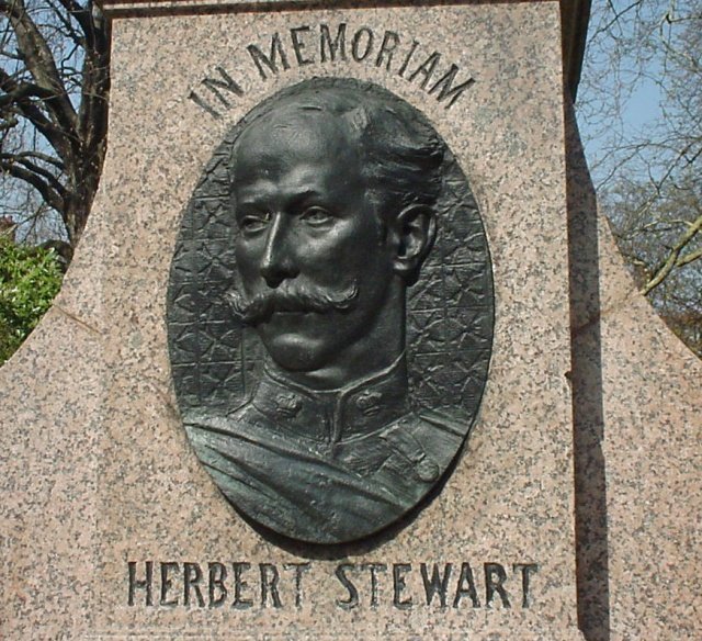 Photo Taken by Lonpicman